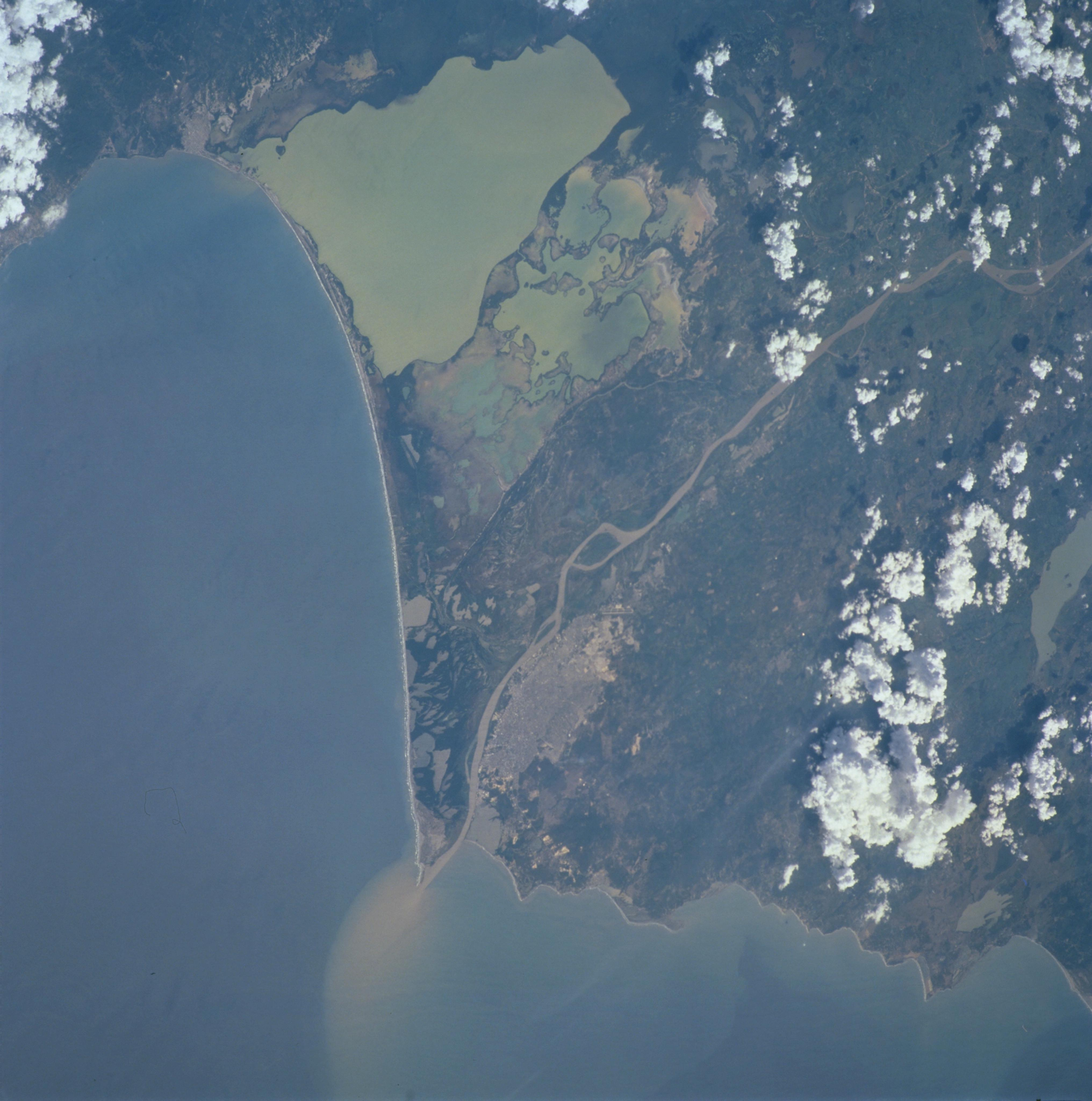 Magdalena River delta Barranquilla, Magdalena River Mouth, Colombia The mouth of the sediment-laden Magdalena River and Colombia’s chief port, Barranquilla, can be seen in this south-southeast-looking view. The river’s sediment plume extends many miles out into the southwest Caribbean Sea (bottom half of the image). The Magdalena links the interior highlands with the coastal lowlands of Colombia. Barranquilla with a population of well over a million people, is located on the west bank of the river, and has large chemical factories and cement works, along with shipbuilding and textile facilities. Identification Mission: ISS002 Roll: 732 Frame: 73 Mission ID on the Film or image: ISS002 Country or Geographic Name: COLOMBIA Features: BARRANQUILLA Center Point Latitude: 11.0 Center Point Longitude: -74.5 (Negative numbers indicate south for *latitude and west for longitude) Stereo: (Yes indicates there is an adjacent picture of the same area) ONC Map ID: JNC Map ID: Camera Camera Tilt: Camera Focal Length: 250mm Camera: HB: Hasselblad Film: 5069 : Kodak Elite 100S, E6 Reversal, Replaces Lumiere, Warmer in tone vs. Lumiere. Quality Film Exposure: Percentage of Cloud Cover: 25 (11-25) Nadir Date: 20010810 (YYYYMMDD)GMT Time: 19____ (HHMMSS) Nadir Point Latitude: , Longitude: (Negative numbers indicate south for latitude and west for longitude) Nadir to Photo Center Direction: Sun Azimuth: (Clockwise angle in degrees from north to the sun measured at the nadir point) Spacecraft Altitude: nautical miles (0 km) Sun Elevation Angle: (Angle in degrees between the horizon and the sun, measured at the nadir point) Orbit Number